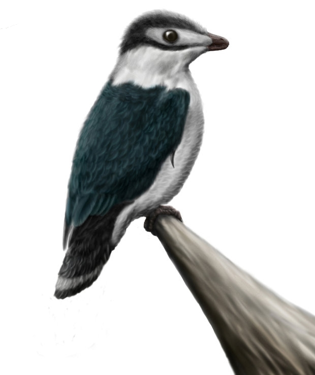 Illustration of the enantiornithe Iberomesornis romerali perching on a branch in Early Cretaceous Spain.